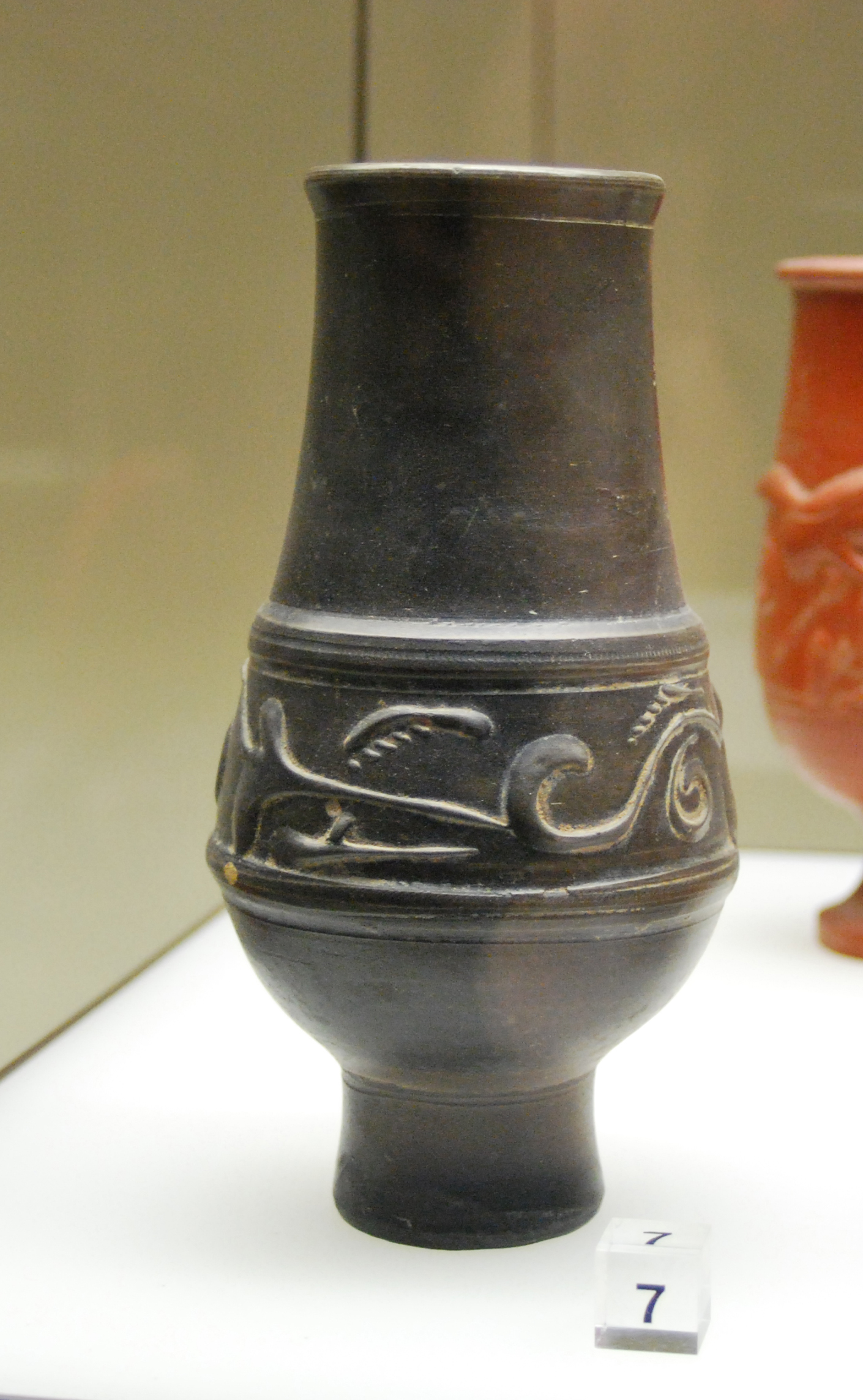 Terra Nigra beaker from Cologne (Luxemburger Straße)